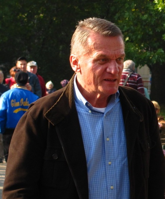 Bohuslav Svoboda, Mayor of Prague